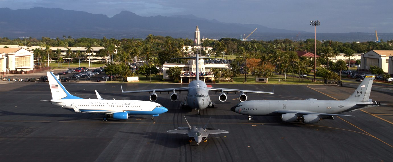 Hawaii Air National Guard - aircraft group photo. The C-40 Clipper, operated by the 65th Airlift Squadron (65 AS) is part of the 15th Airlift Wing at Joint Base Pearl Harbor-Hickam, Hawaii. The aircraft provides executive airlift in the Pacific theater and support for worldwide aerial transportation operations.